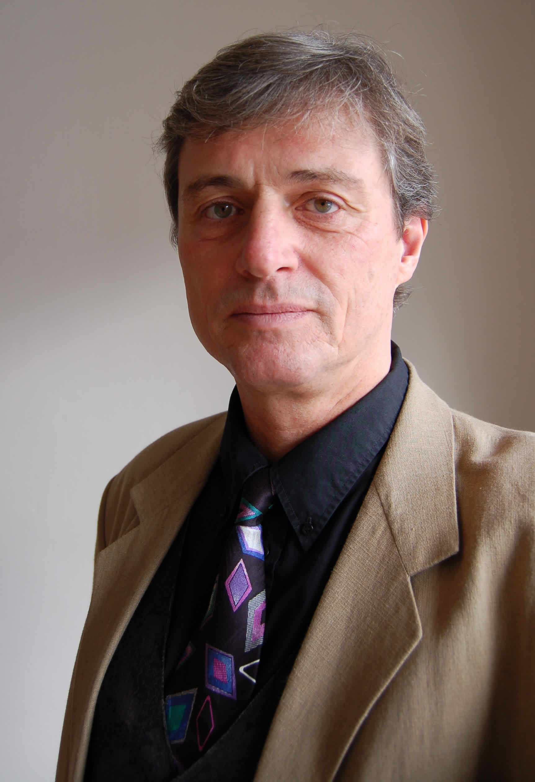 Jiri Svoboda, the Czech architect